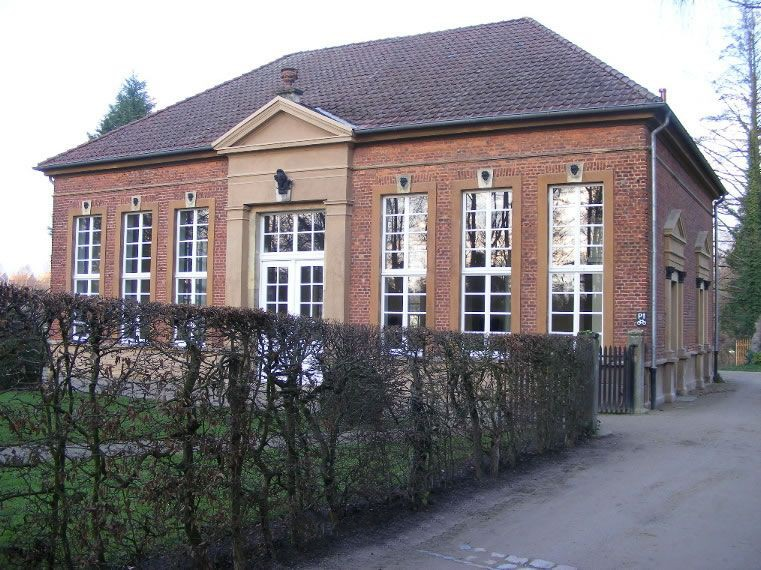 Orangerie